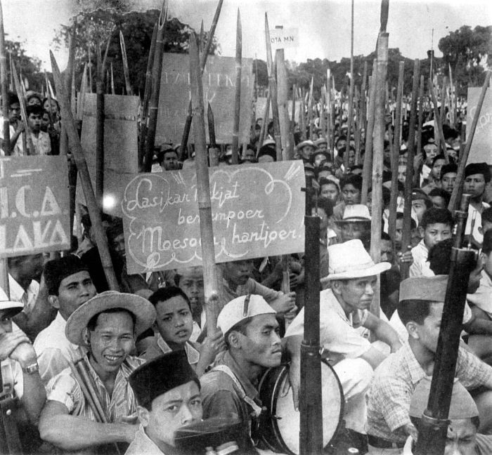 Javanese revolutionaries fighting for independence. Most are armed with bamboo spears; the few rifles are Japanese.